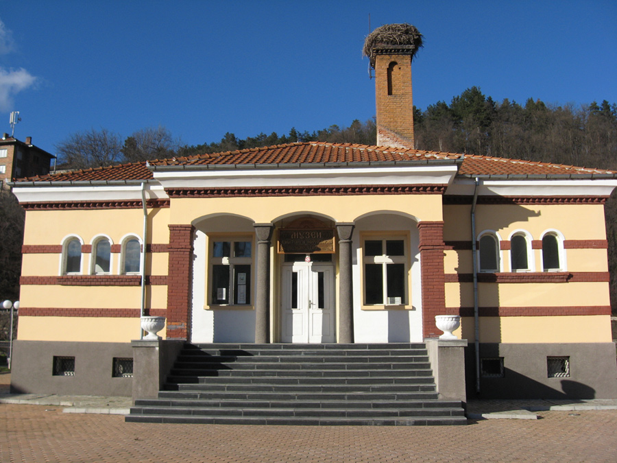 Museum of Asian and African art, Tryavna